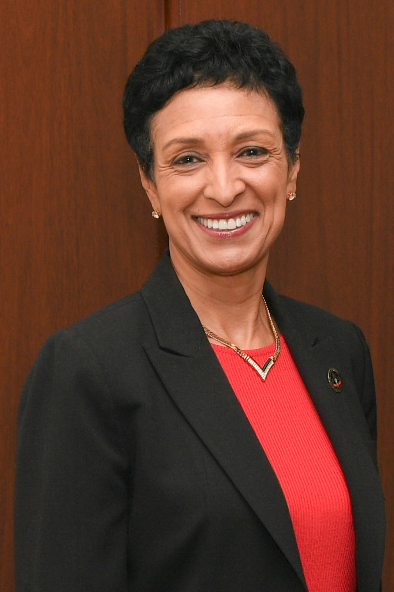 CG Wins and RDECOM team visits Bowie State University